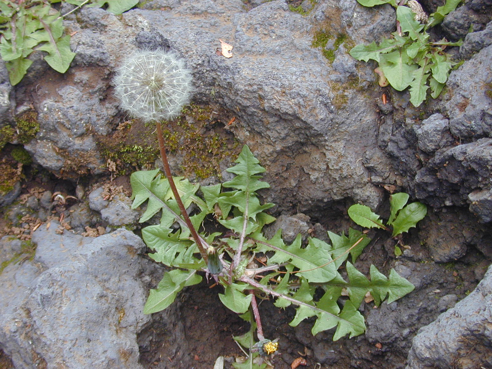 Taraxacum officinale (habit). Location: Maui, Polipoli